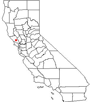 Adapted from by RadioKirk